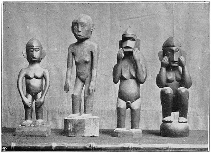 Anitos of Northern tribes (c. 1900, Philippines)